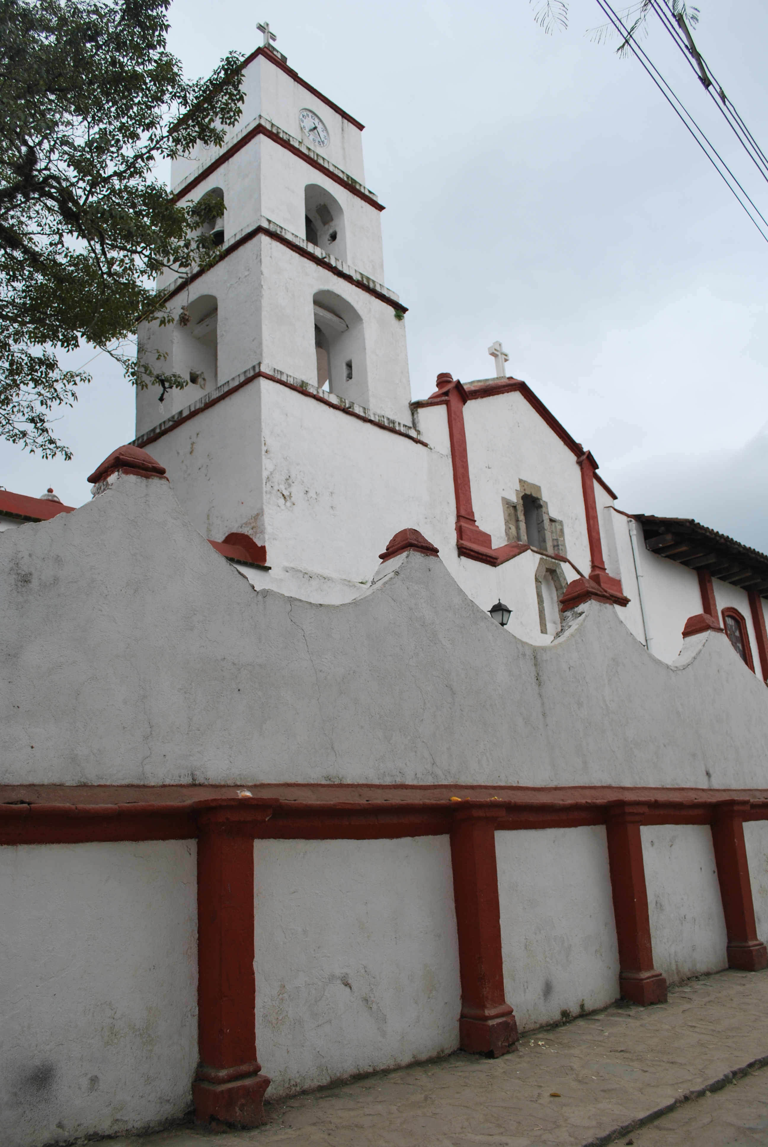 Facade of the Santiago Apostol Church in Pahuatlan, Puebla, Mexico